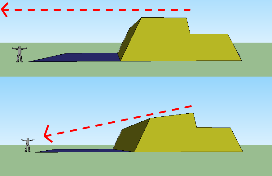 Plongee, schootingline from the wall of a fotified city